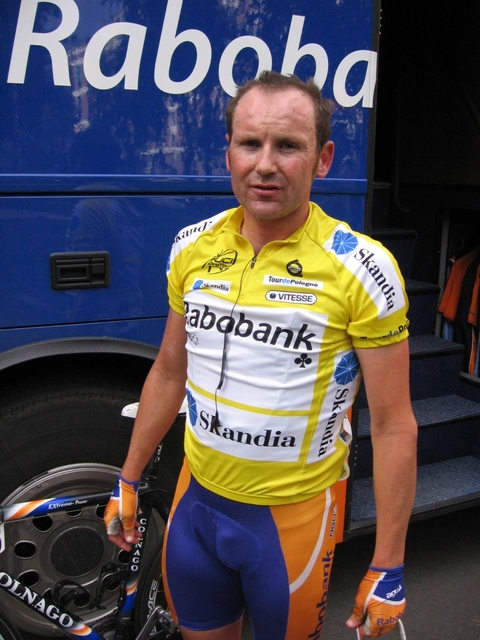 Graeme Brown